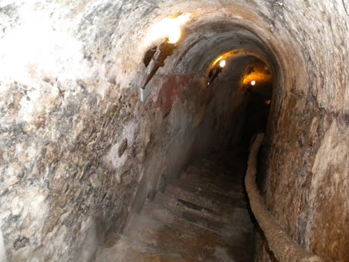 Staircase to an underground Aranda de Duero Wine Cave in Spain